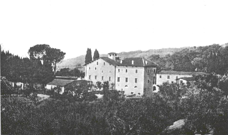 White House - Sant'Agata di Mugello - Florence. Villa Amerighi, already owned by the Paolini and del Tozzo family.